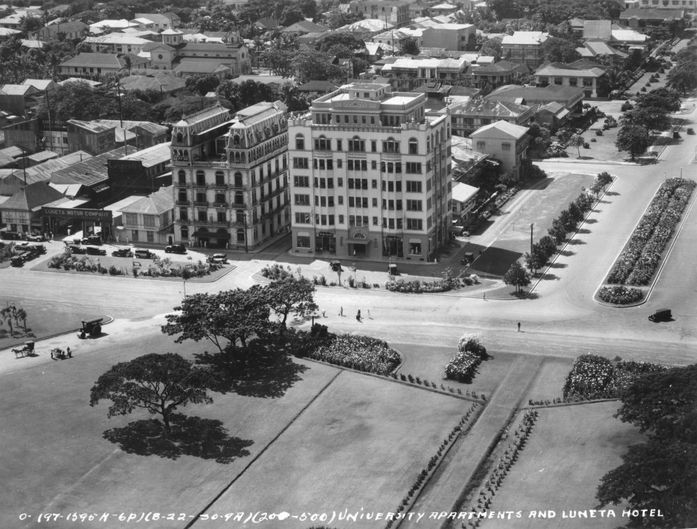 PictionID:38279089 - Catalog:AL-135A 076 - Filename:AL-135A 076.tif - This image is from a photo album donated to the Museum by JL Highfill, who was a photographer for the Navy before and during the Second World War-----------PLEASE TAG this image with any information you know about it, so that we can permanently store this data with the original image file in our Digital Asset Management System.-----------------SOURCE INSTITUTION: San Diego Air and Space Museum Archive